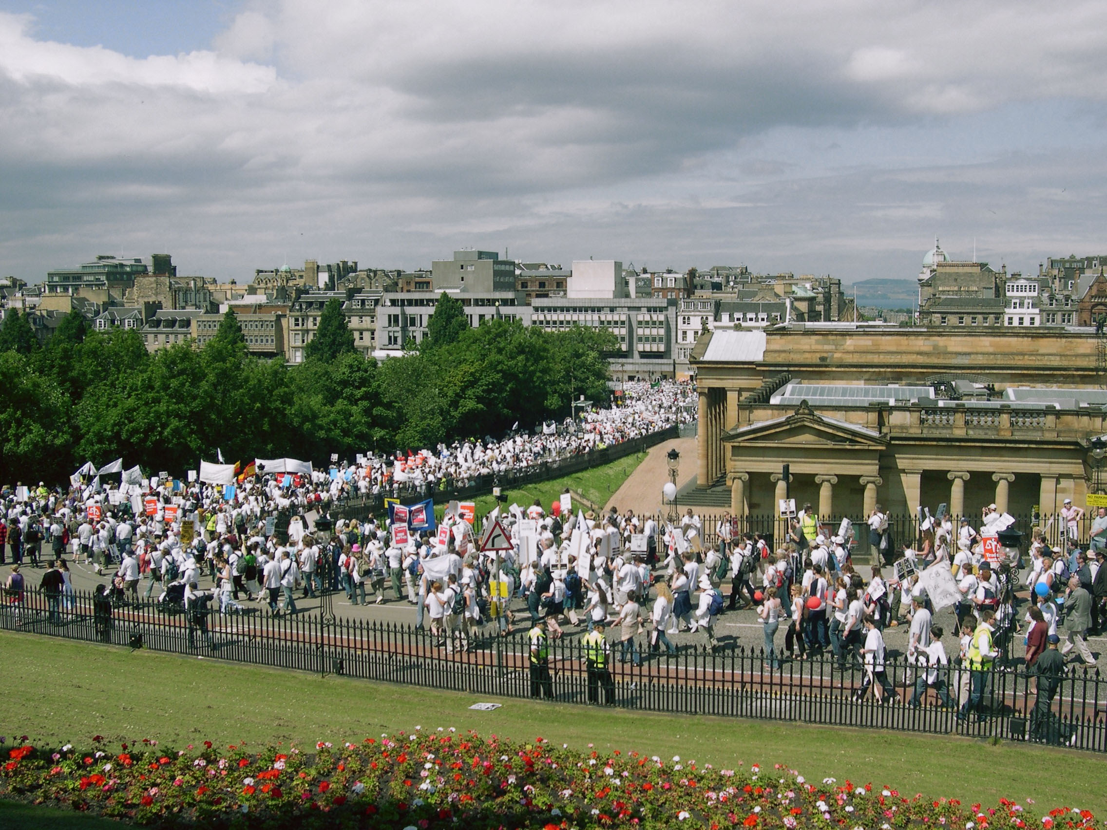 Photograph of the MakePovertyHistory demonstration moving down the Mound on 2 July 2005 in Edinburgh. The trees on the left belong to the Princes Street Gardens. On the right is the National Gallery of Scotland.